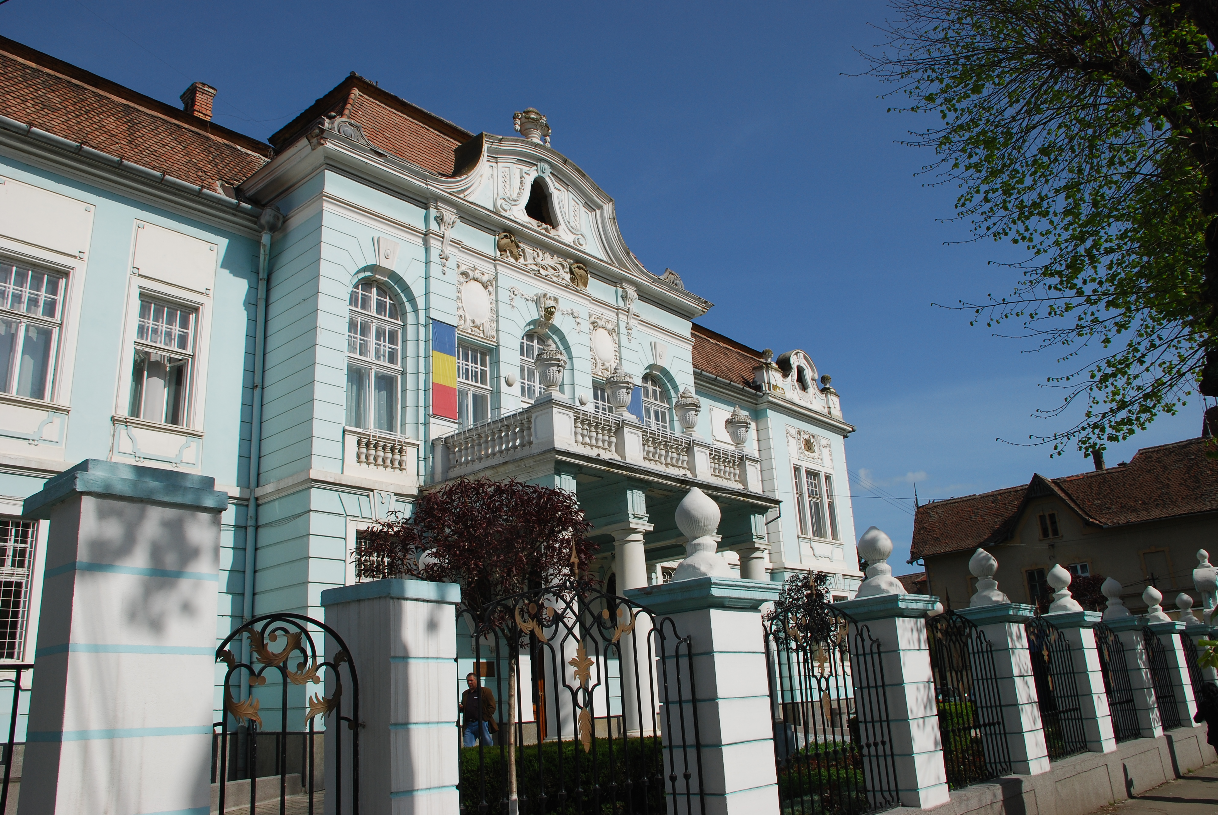 Rectorate building of Lucian Blaga University of Sibiu,Sibiu